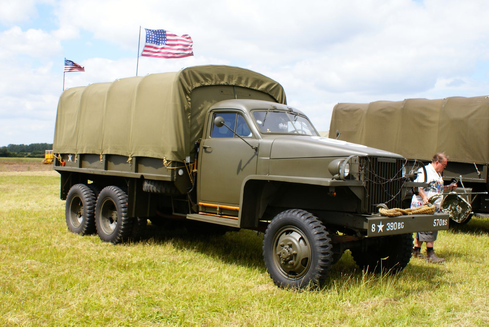 Rougham air strip, Wings Wheels and Steam Country Fair. Bury St Edmunds Suffolk